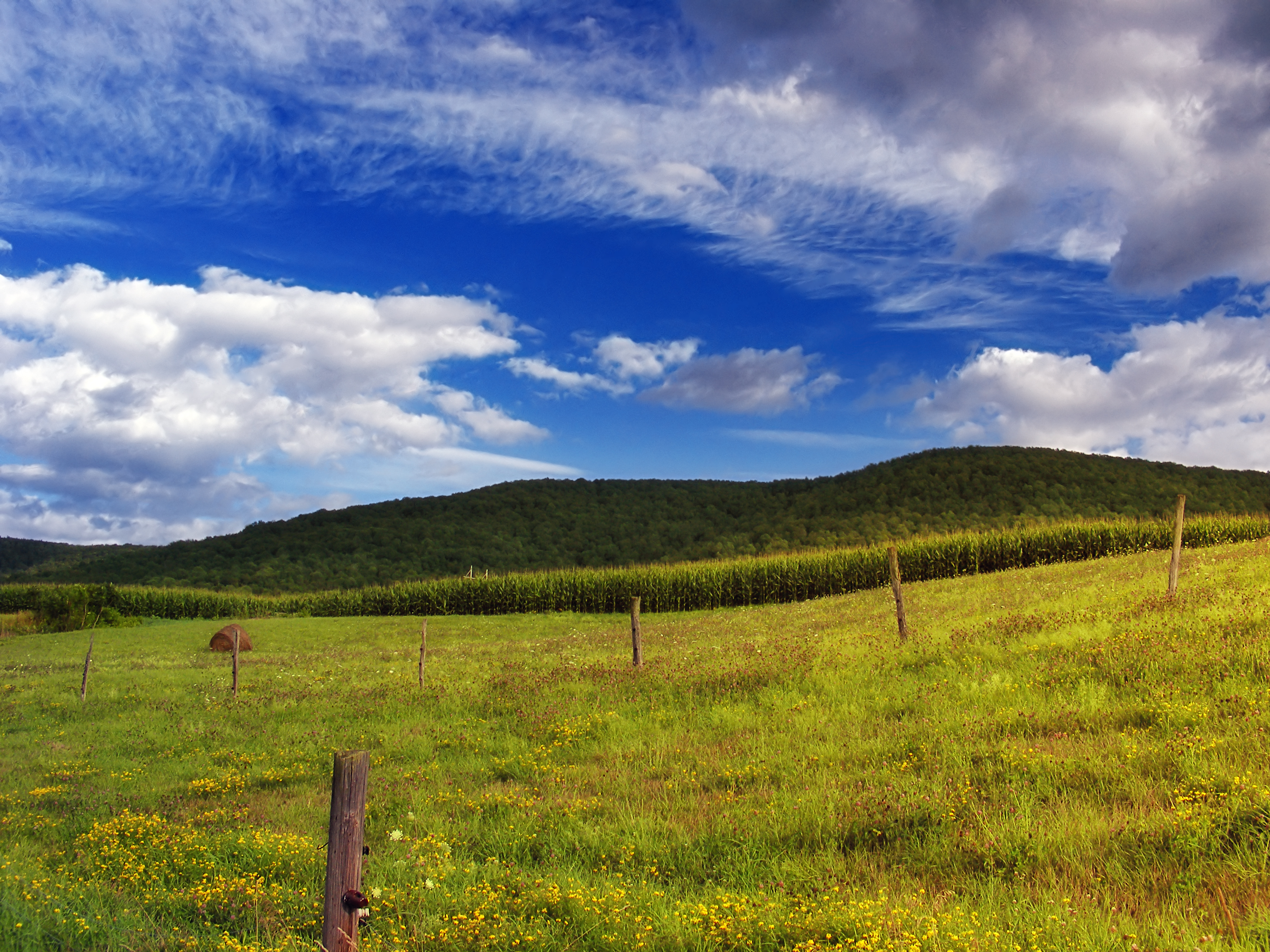 Roadside field, Sullivan Township, Tioga County, Pennsylvania.